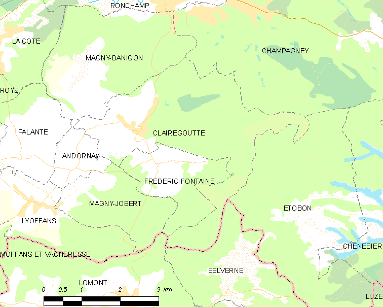 Map of French municipality